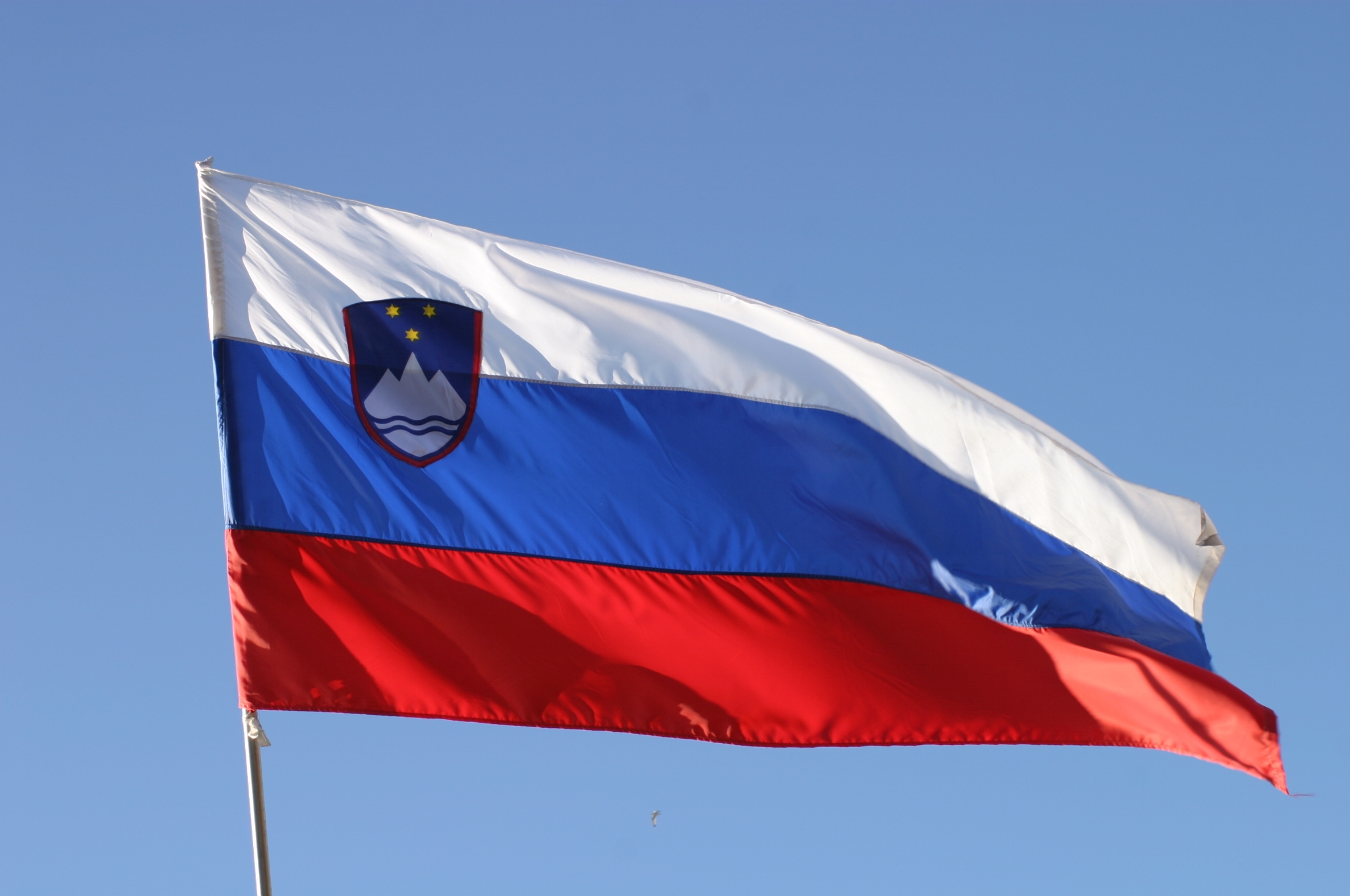 Flag of Slovenia